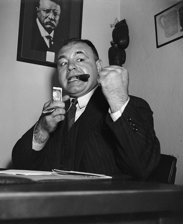 I can lick the bum' Washington, D.C., Nov. 9. Rollicking Tony Galento, Orange, N.J., pubkeeper, sounding off today at the offices of the D.C. Boxing Commission where he laid on the line for Secretary Harvey L. Miller a ten-grand note as a challenge to Joe Louis for a championship bout. The money will be forwarded by Miller, an official of the National Boxing Association, to Charles E. Reynolds, President of the NBA, 11/9/38. (original text)